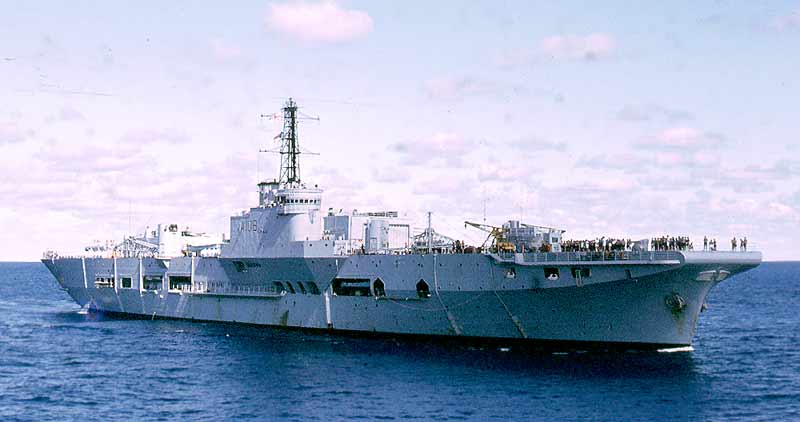 The Royal Navy heavy repair ship HMS Triumph (A108) in the Atlantic in January 1972.